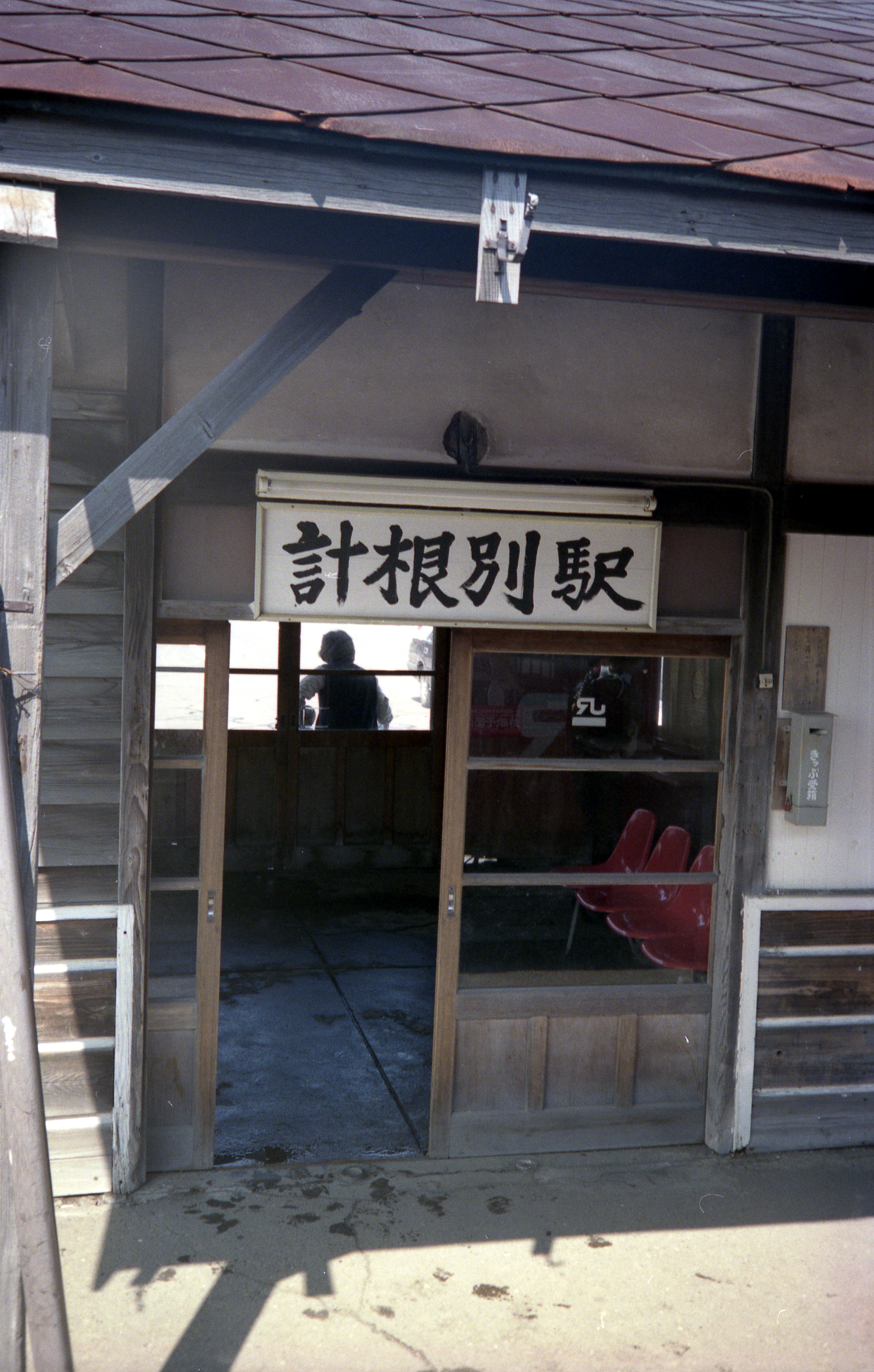 Part of the building of Kenebetsu Station,Hokkaido Railway Company Shibetsu Line(before abolished)